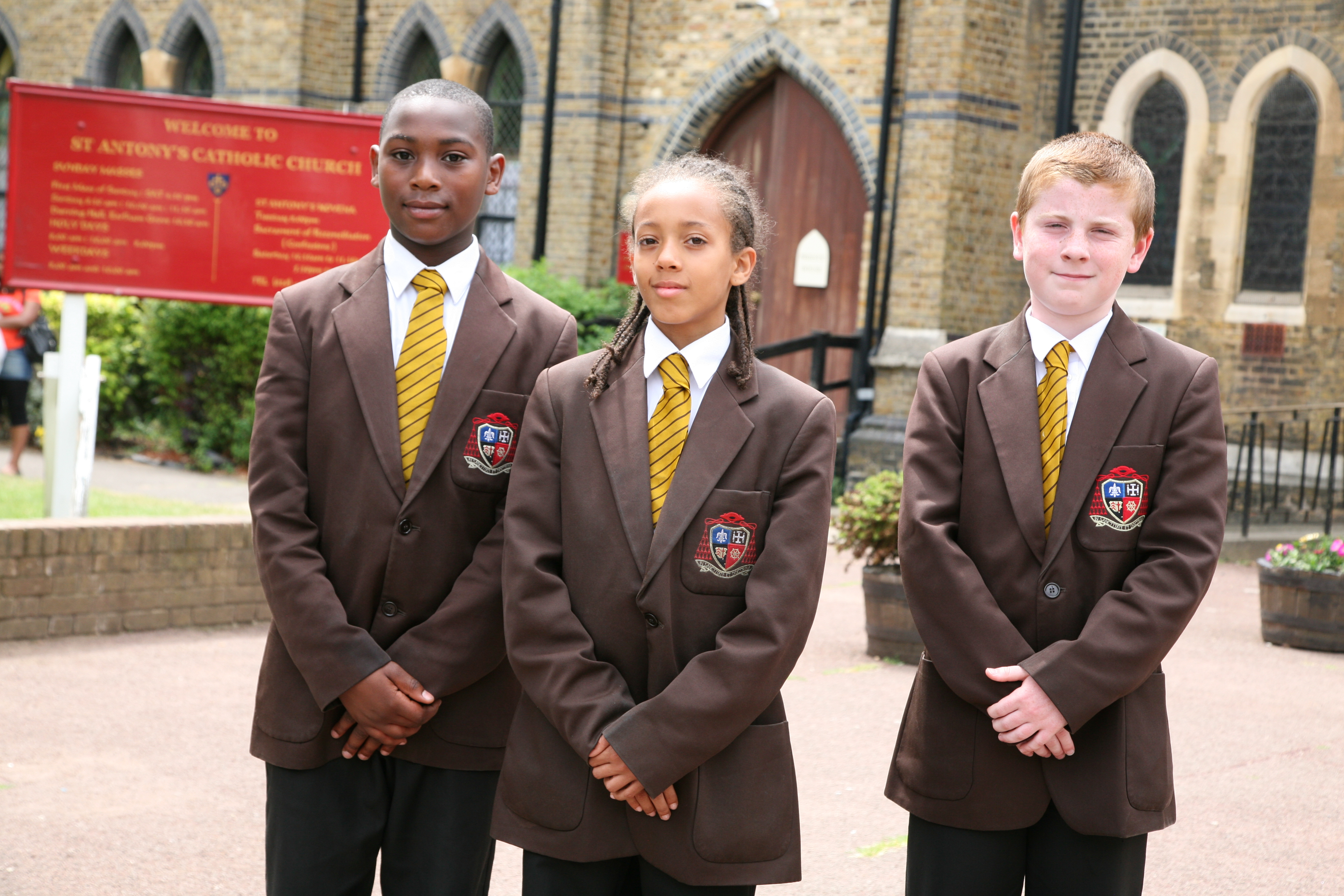 Brown Blazers outside St Antonys